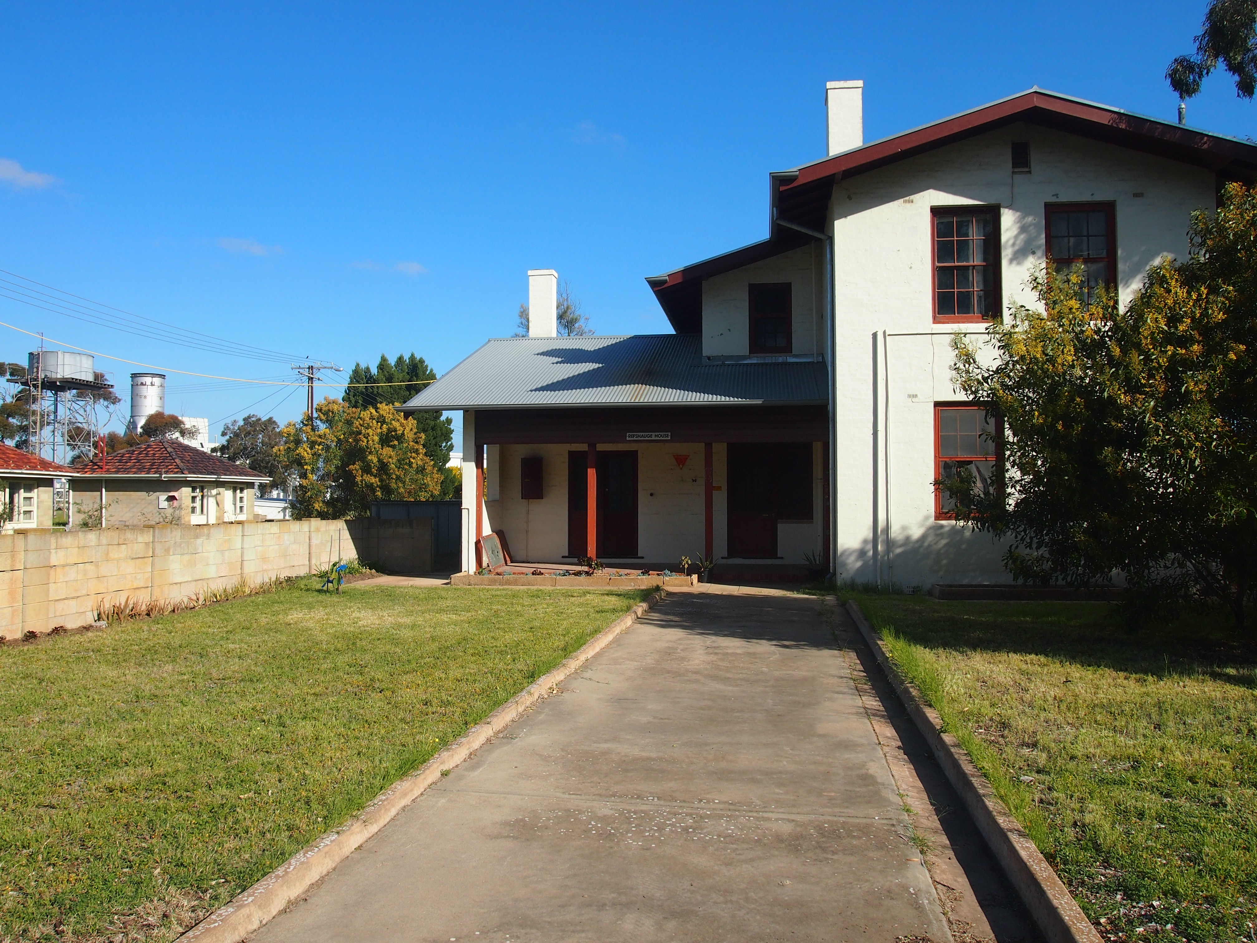 Refshauge House, the former administration building and dispensary at the Torrens Island Quarantine Station, South Australia. Constructed in 1916, it was named for William Refshauge, Director-General of the Australian Government Department of Health (1960-1973). After the human quarantine station closed in 1980, it continued to be used until 1993 as a residence for the Chief Veterinary Officer of the adjoining animal quarantine facility. Original filename = P9211895.JPG